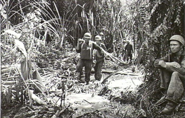 1943-01-27. PAPUA. ALLIED ADVANCE ON SANANANDA. WATER, MUD AND SLUSH ARE ALMOST THE ALLIED TROOPS INSEPARABLE COMPANIONS IN PAPUA. FOR WEEKS THE ALLIES HAVE BEEN ADVANCING, SOME TIMES UP TO THEIR THIGHS IN MUD. PLOUGHING THEIR WAY THROUGH THE INEVITABLE MUD AMERICANS CARRY SMALL ARMS AMMUNITION TO THE FORWARD AREAS. (NEGATIVE BY BOTTOMLEY).